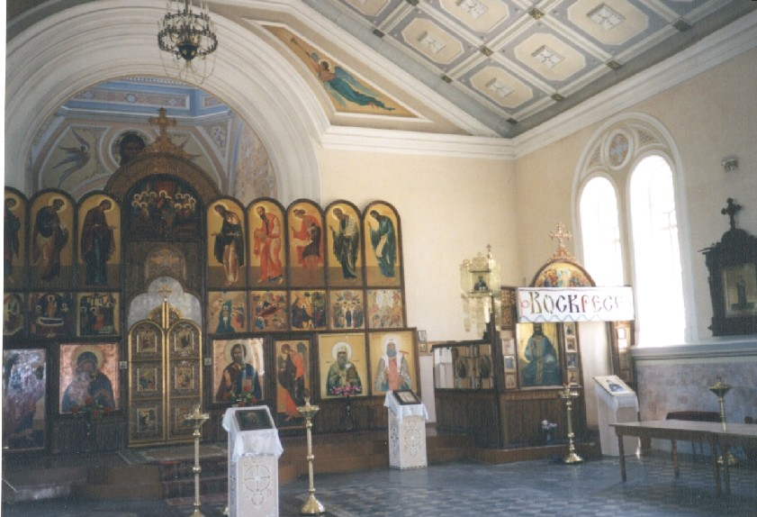 Cathedral of St. Alexis of Moscow to Samarkand